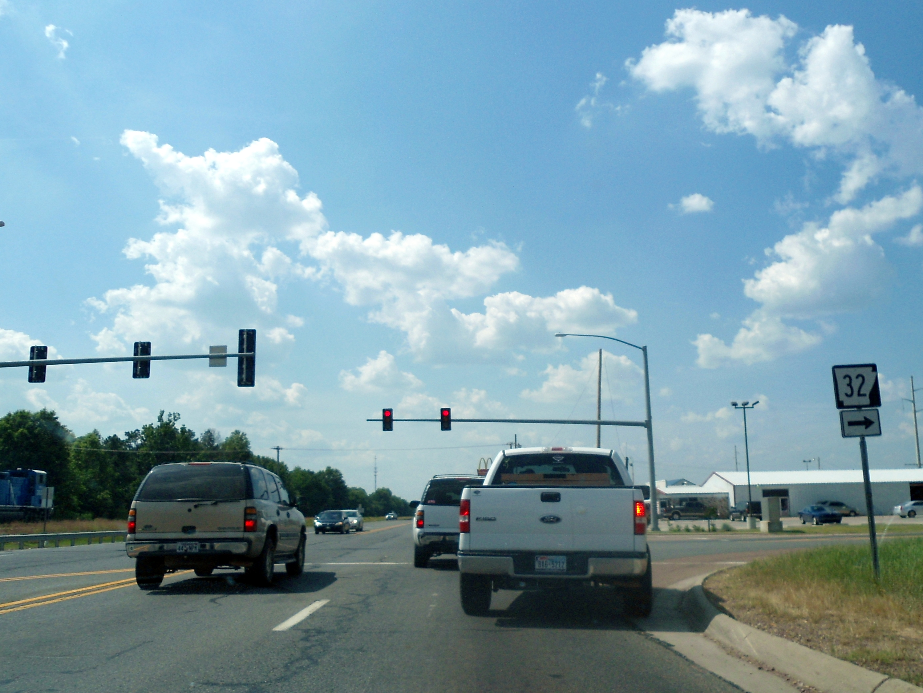 Unsigned Highway 32Y gives access to Highway 32 in Ashdown, Arkansas. AHTD rarely signs the connecting highways, and only signed Highway 32 in this case.